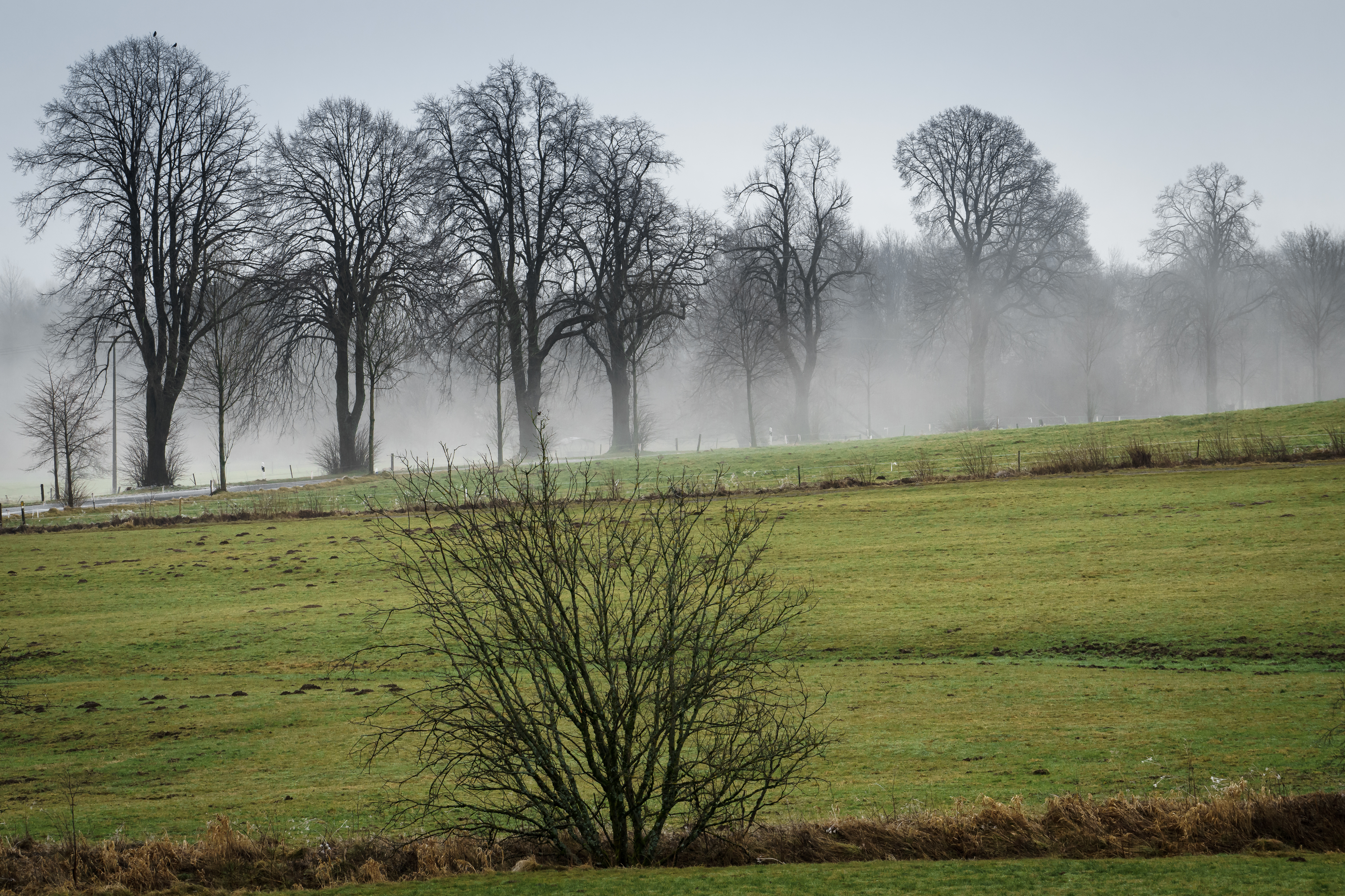 hoar frost rain - dewing hoar frost falling down from trees